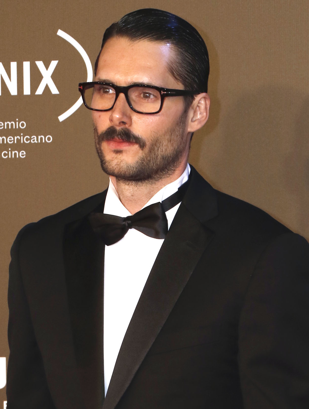 En el Teatro de la Ciudad Esperanza Iris, se realizó la 4ª Entrega del Premio Iberoamericano de Cine, Fenix, previo a la ceremonia, nominados, conductores, presentadores y elencos, desfilaron por la alfombra roja.